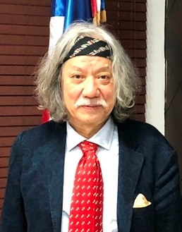 Jin Akiyama, Specially Appointed Vice President of Tokyo University of Science, met Andrés Navarro, Minister of Education, in Dominican Republic on October 1, 2018.